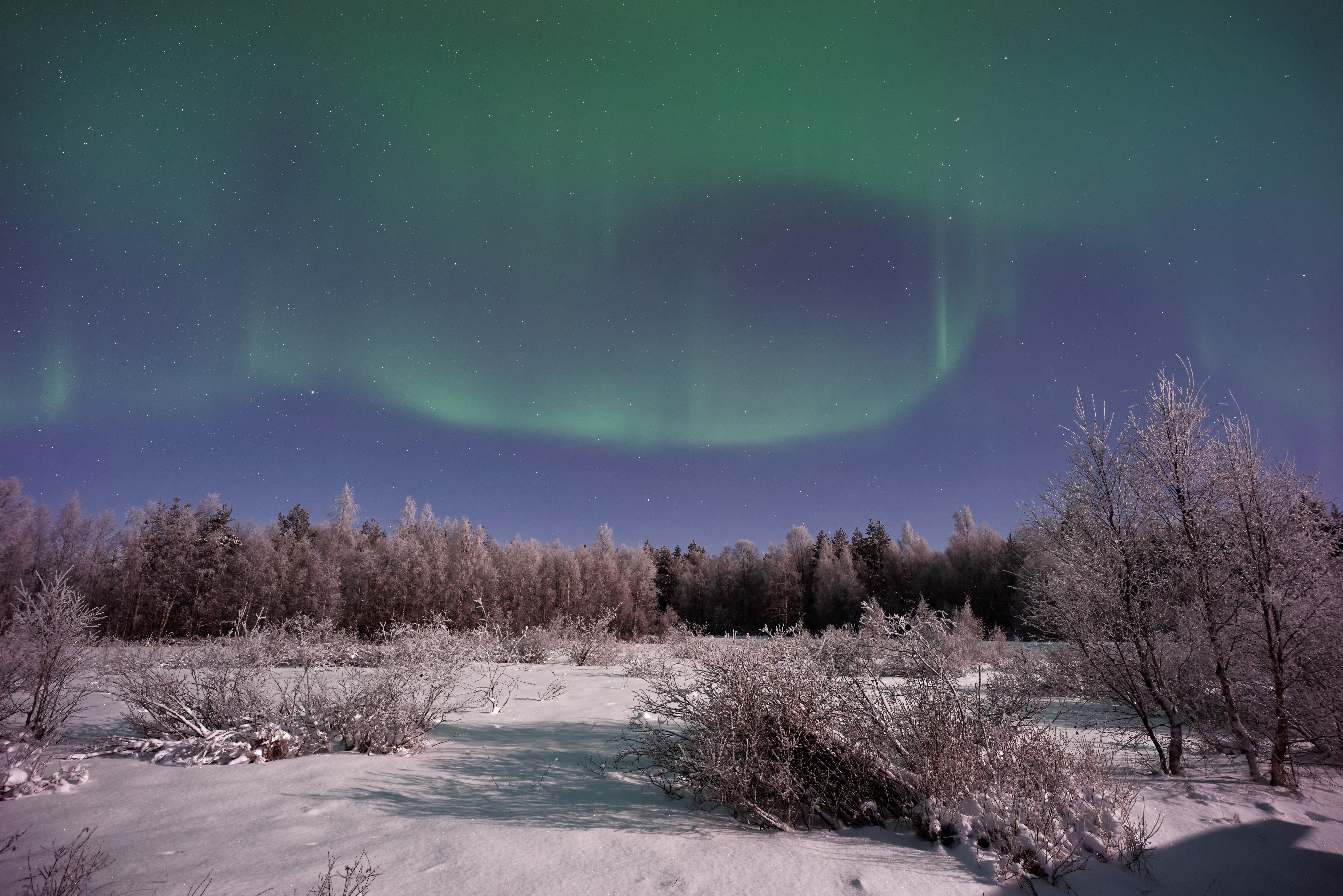 Lapland, Finland